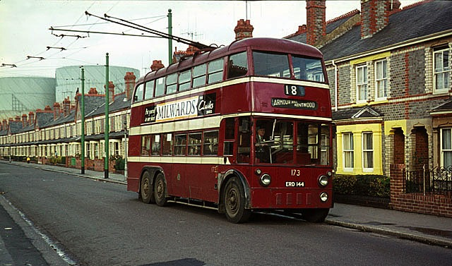 A Reading Transport trolleybus at the Liverpool Road terminus of the London Road route. For more information see the Wikipedia article Reading Transport Ltd. Trolleybus 173 was a 1950 Sunbeam S7 with a Park Royal body.